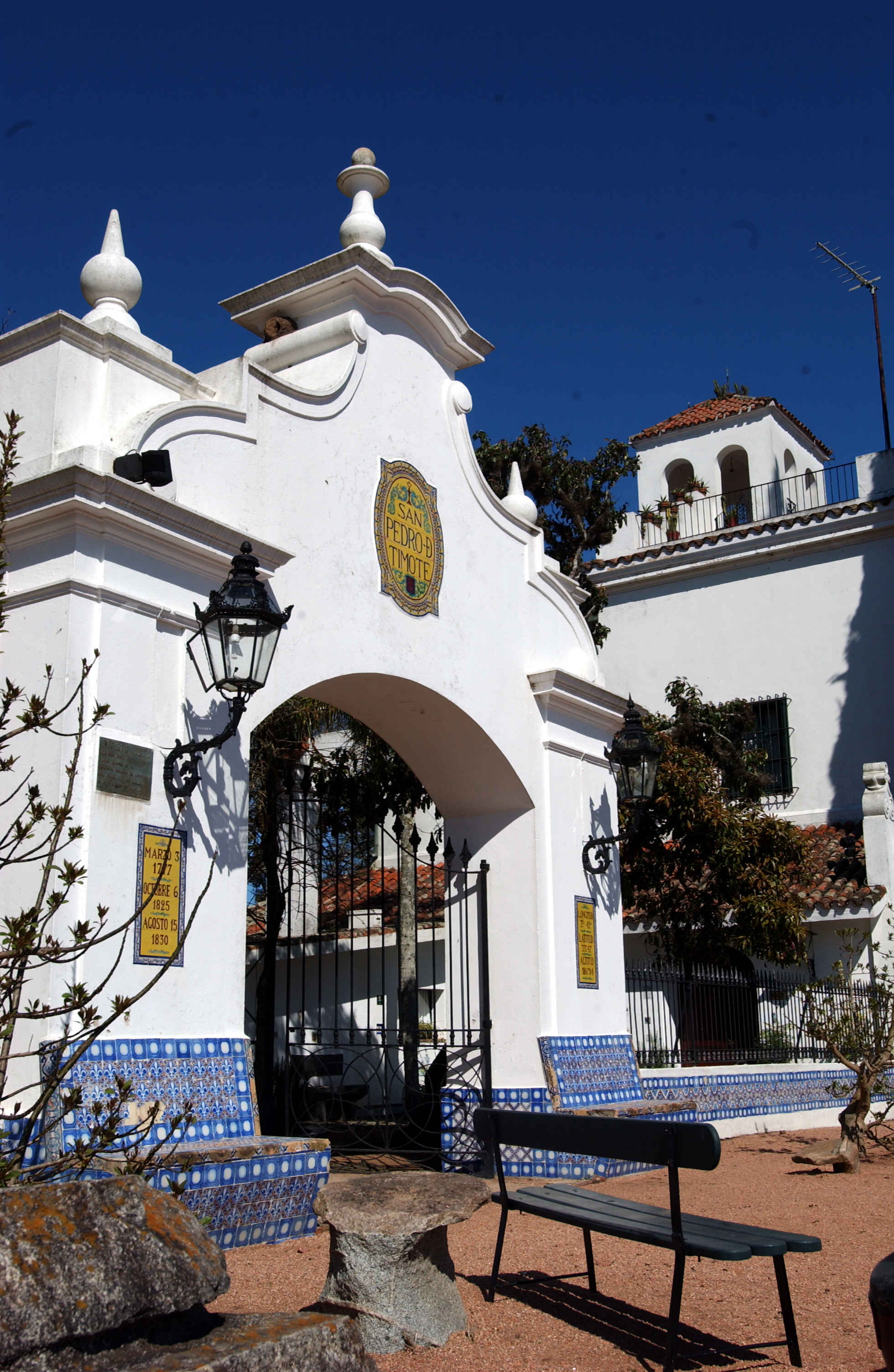 guest ranch Estancia San Pedro del Timote, Florida Department, Uruguay